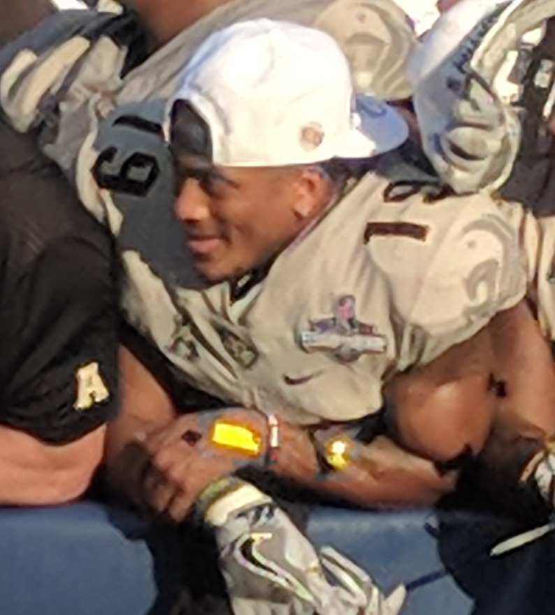 UCF beat Memphis 62-55 in double overtime to claim the American Athletic Conference Championship and a 12-0 record for the season